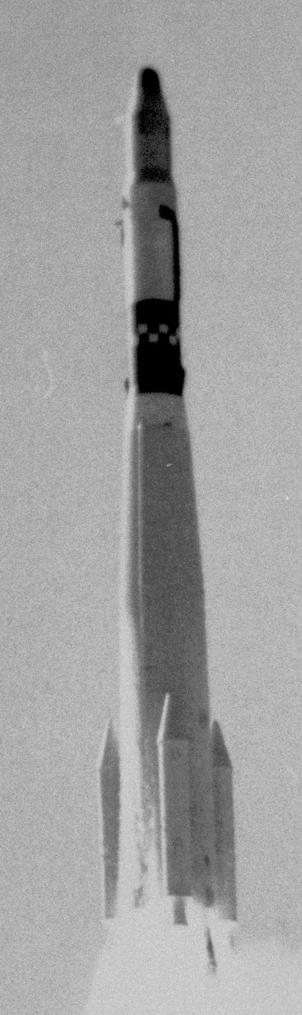 Launch of a Thor SLV-2A Agena D rocket with Corona 104 satellite.